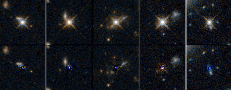 تلسكوب هابل يشاهد سنوات المراهقة للنجوم الزائفة